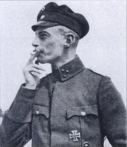 Image of Hans Baron Manteuffel-Szoege (1894 - 1919), an officer of the Baltische Landeswehr ("Baltic Land Defence").